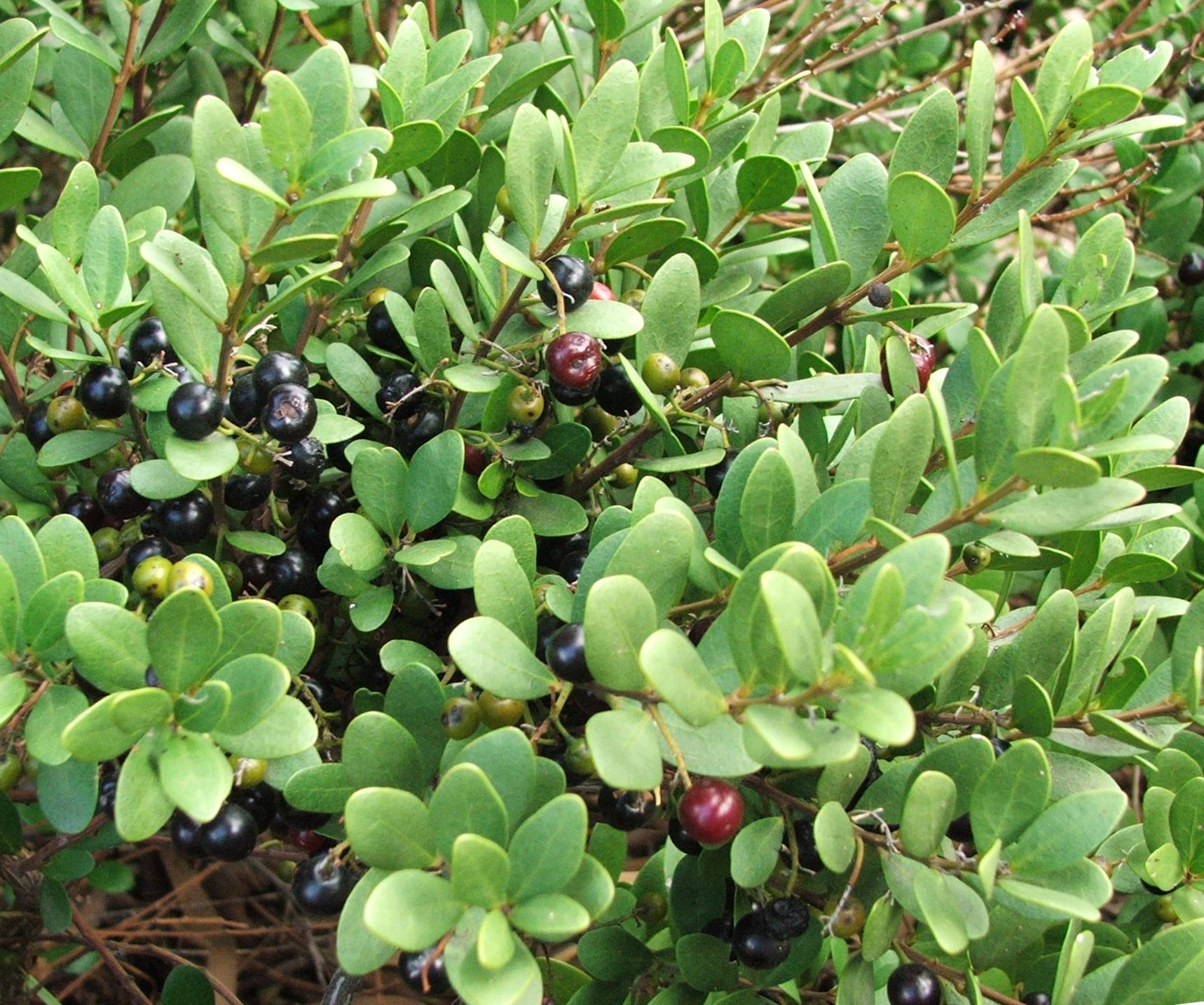 The berries of the Euclea racemosa tree.